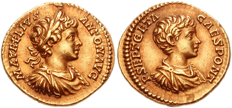 Caracalla, wtih Geta as Caesar. AD 198-217. AV Aureus (19mm, 7.39 g, 6h). Rome mint. Struck AD 202. M AVRELIVS ANTON. AVG, laureate, draped, and cuirassed bust of Caracalla right; P SEPT GETA CAES PONT, bare-headed, draped, and cuirassed bust of Geta right. RIC IV 17; Calicó 2863 (same dies).